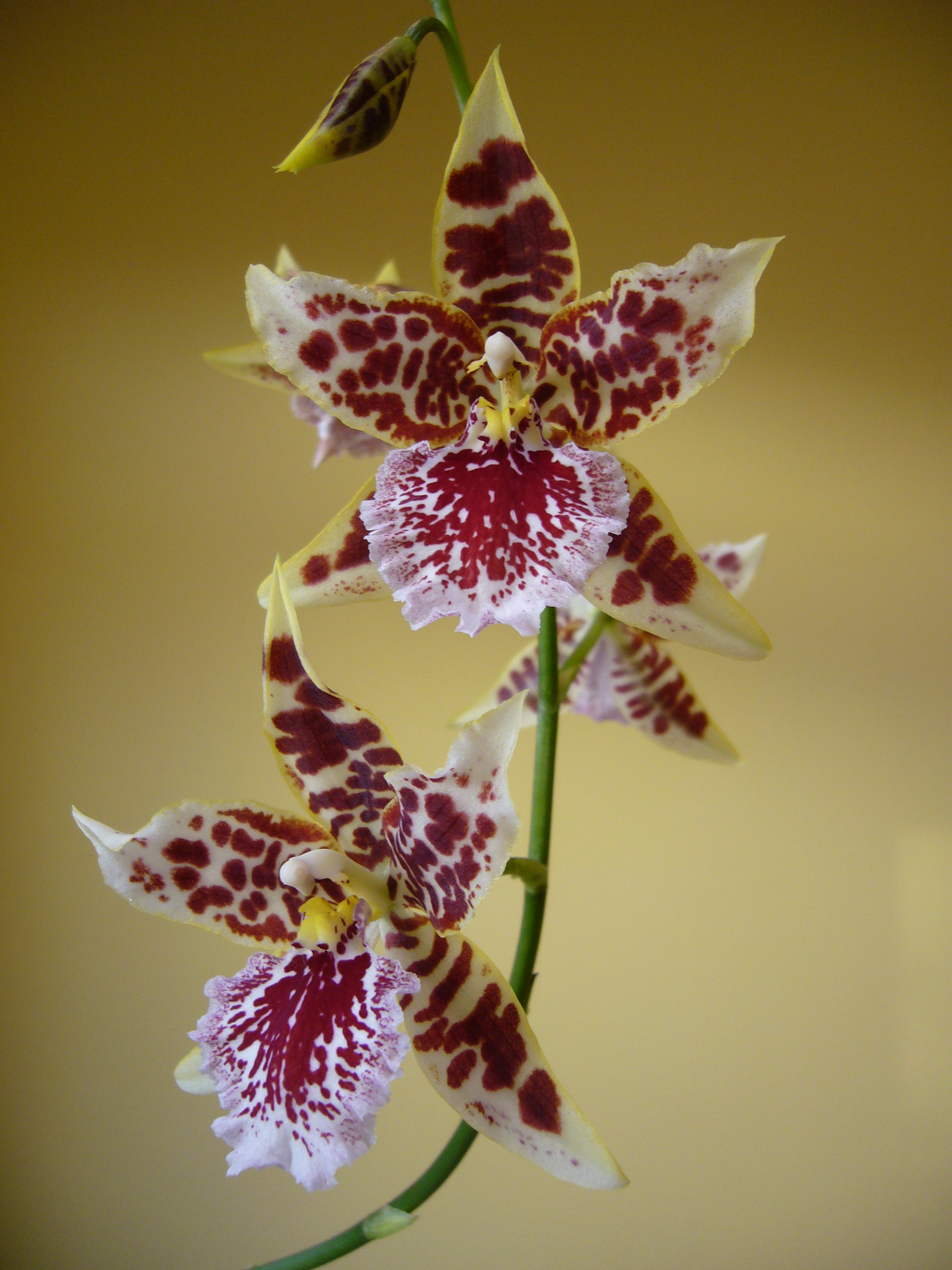 Photo of Cambria orchid flowers. "Cambria" is a commercial name for intergeneric hybrids of Odontoglossum, Oncidium, Miltonia, Cochlioda Lindl. and Brassia.